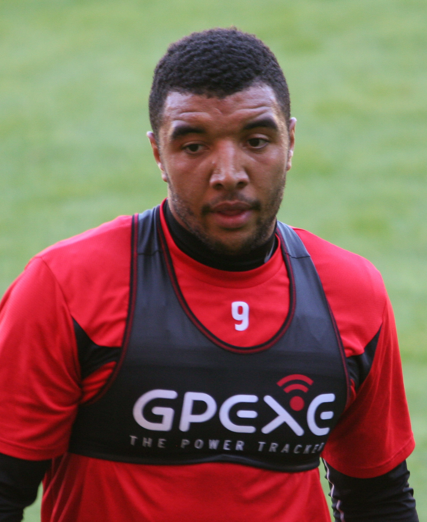 Troy Deeney at Watford's open training on 28 October 2014.